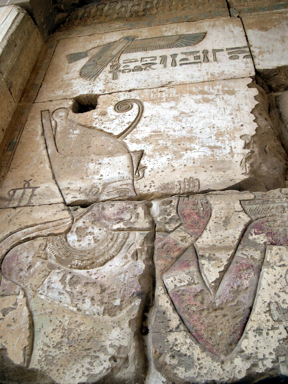 AWIB-ISAW: Hibis, Temple Decorations (III) A relief at the Hibis Temple dedicated to the Theban triad (Amun, Mut & Khonsu) in the Kharga Oasis depicting a pharaoh (perhaps the Persian king Darius I, during whose reign much of the temple complex was constructed). by NYU Excavations at Amheida Staff (2004) copyright: 2004 NYU Excavations at Amheida (used with permission) photographed place: Hebet (Hibis) [1] authority: Image published on the authority of the Amheida Project Director, Roger Bagnall Published by the Institute for the Study of the Ancient World as part of the Ancient World Image Bank (AWIB). Further information: [2].